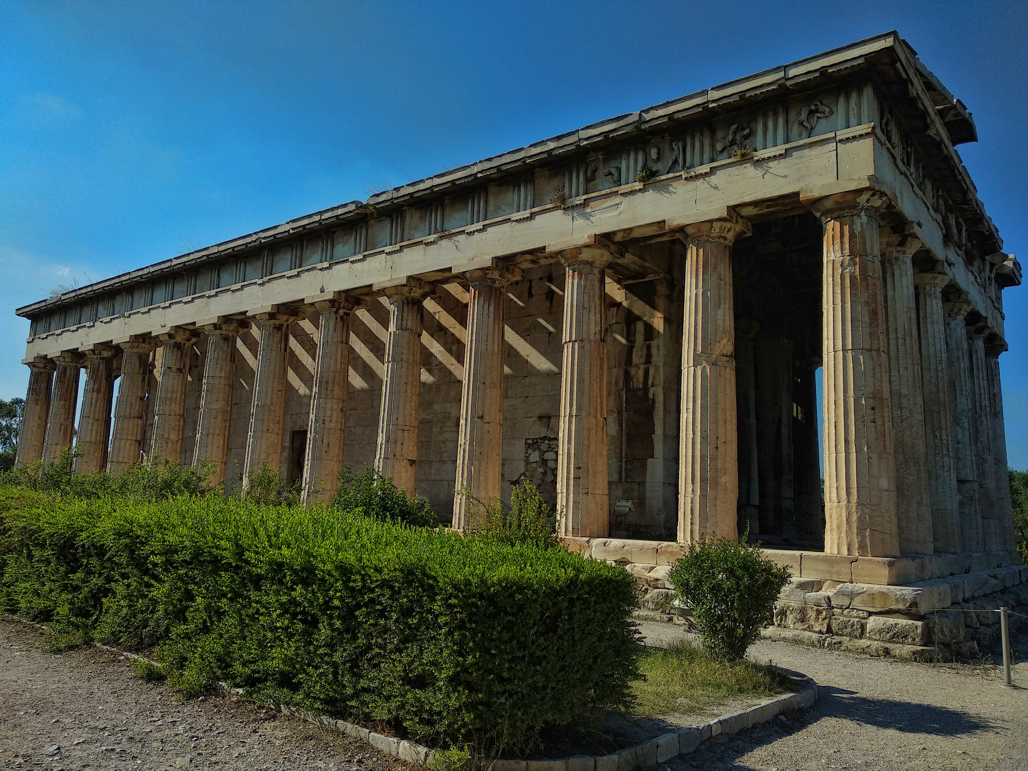 Temple of Hephaestus (south side), Ancient Agora of Athens«Ναός Ηφαίστου»